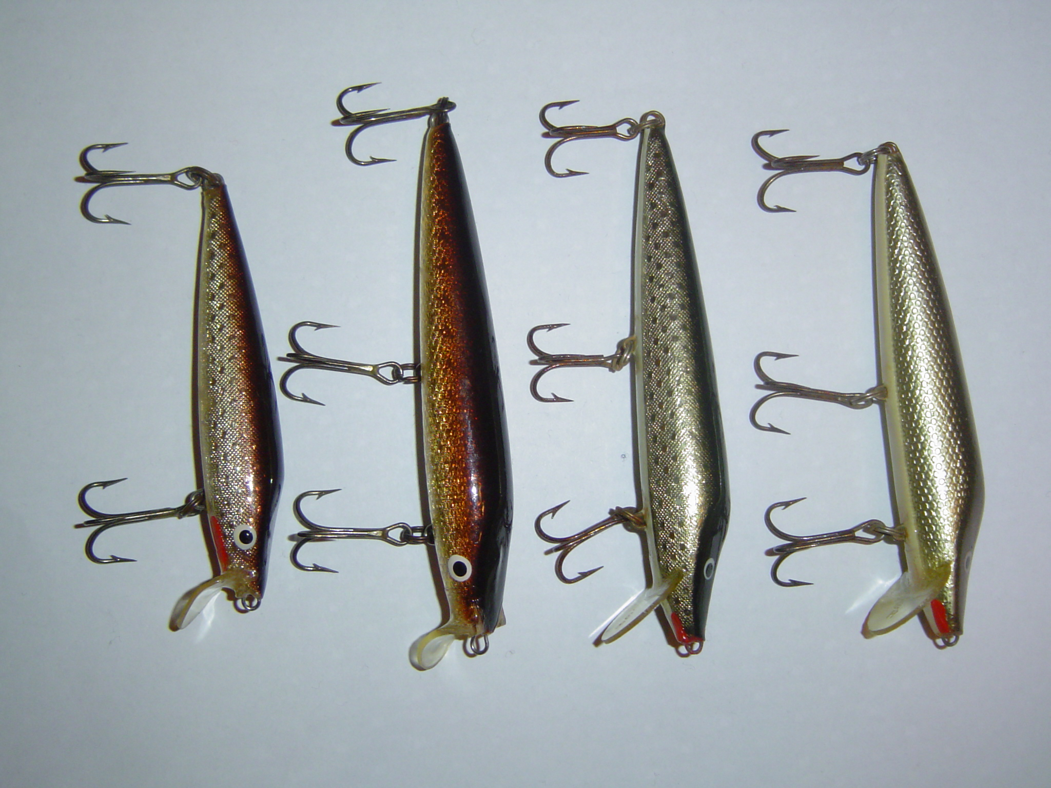 Original old LGH Lures from Finland, two Junior and one Neptunus lures (Neptunus in center)